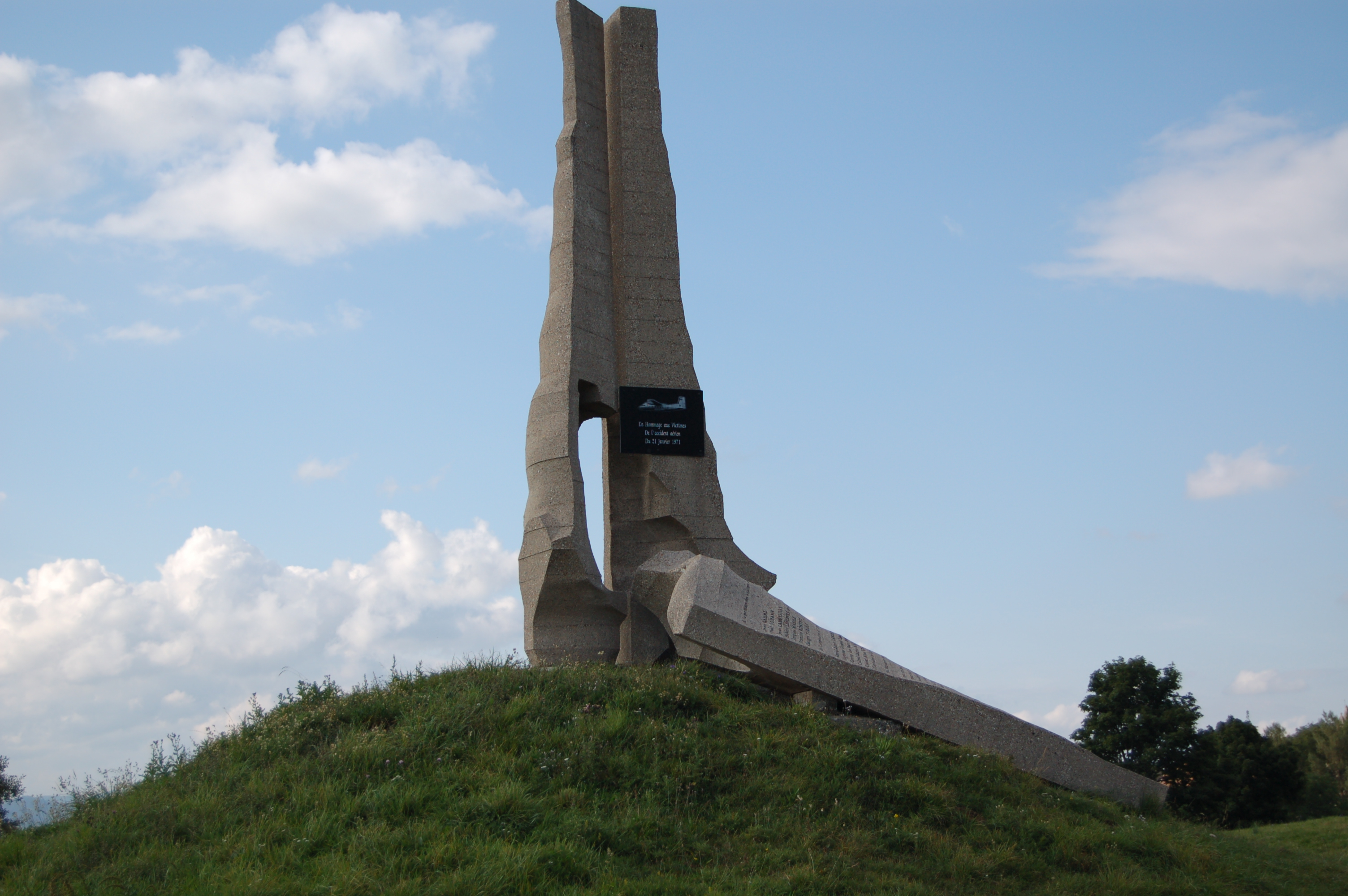 Mezhilac plan crash monument - other side